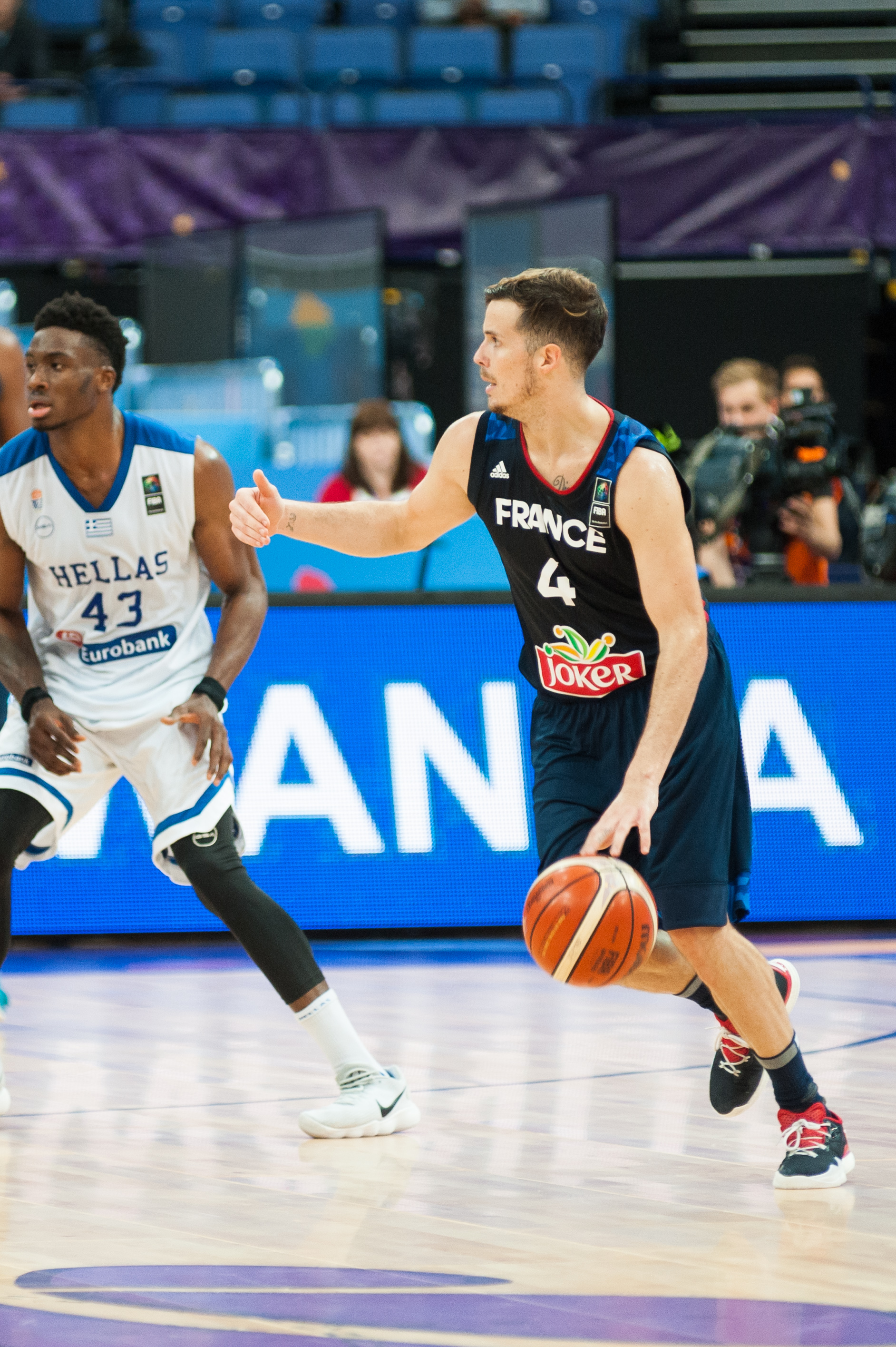 EuroBasket 2017 Group A game between Greece and France at Hartwall Arena in Helsinki, Finland.